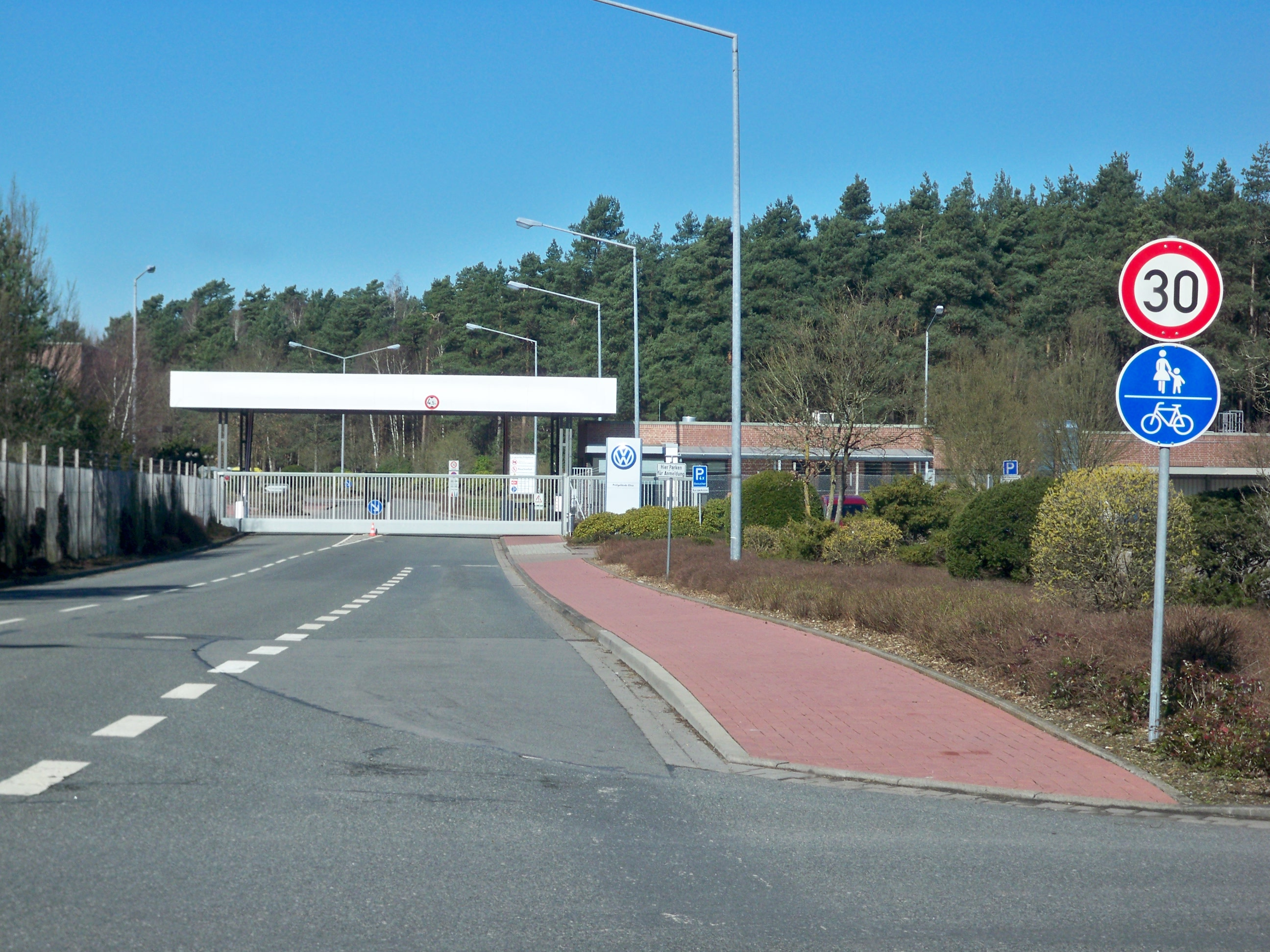 Ehra-Lessien, Lower Saxony, main gate to VW area for test drives